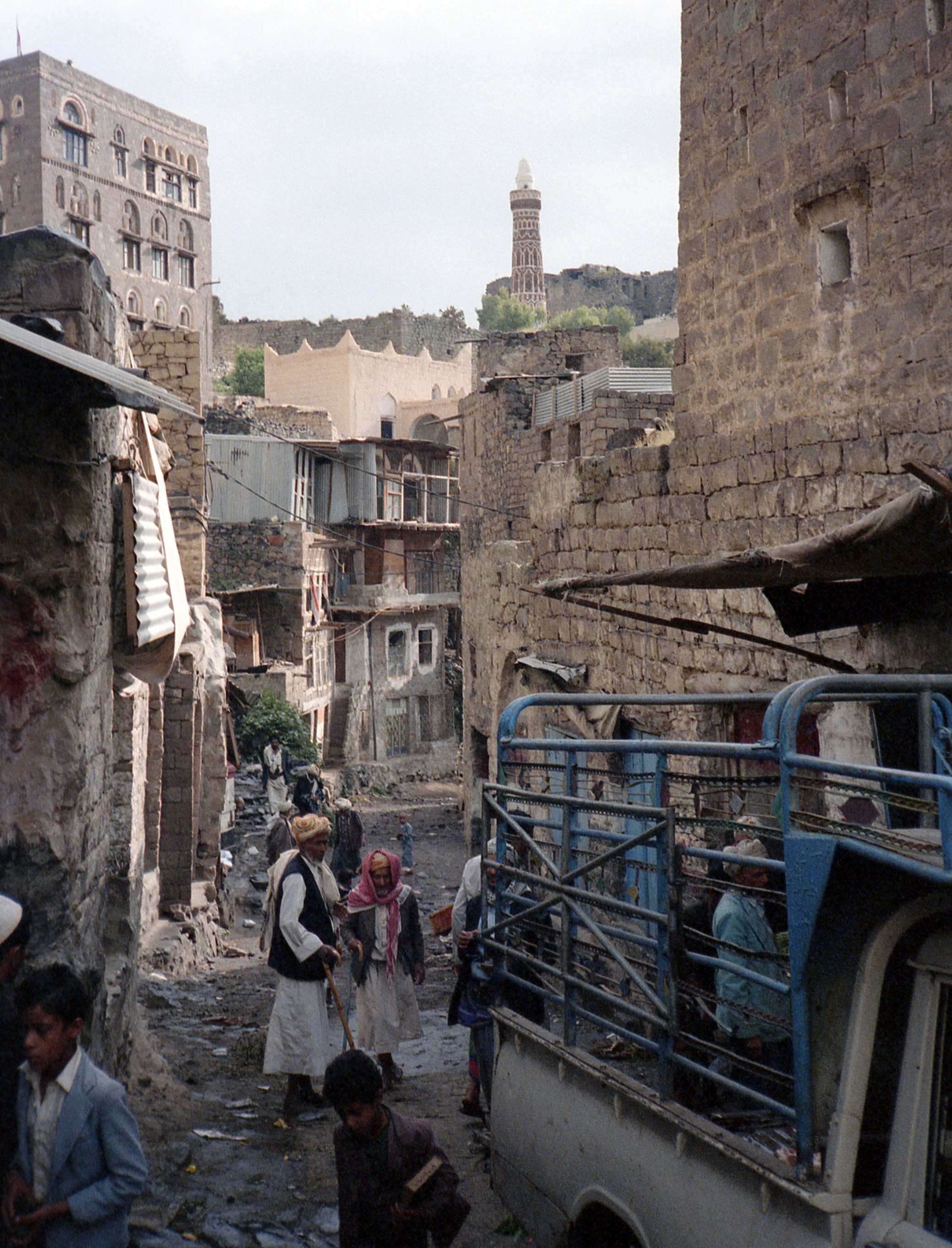 Jibla, Yemen